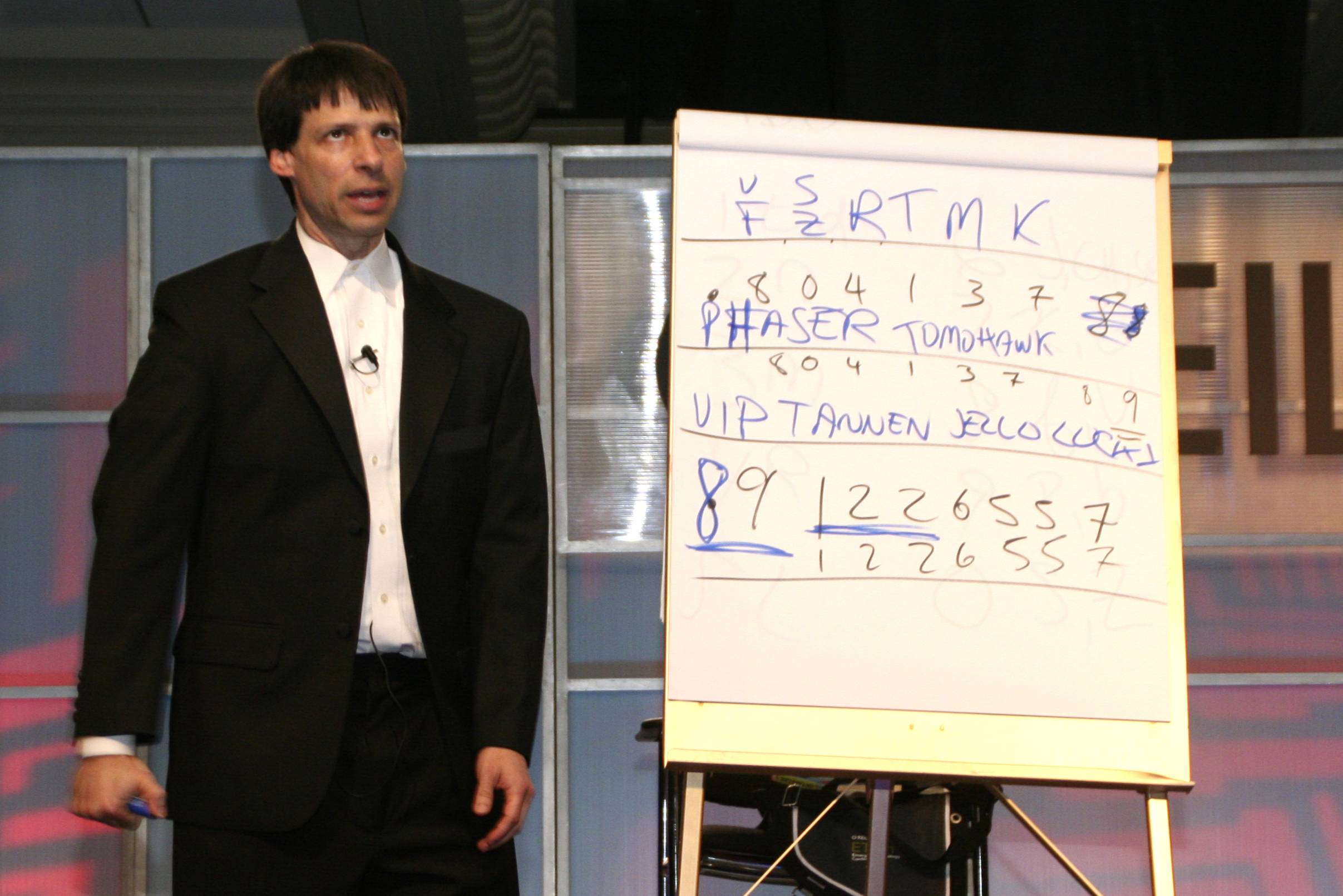 Arthur T. Benjamin eTech 2007 on Monday March 26 - Read more on Arthur Benjamin here.